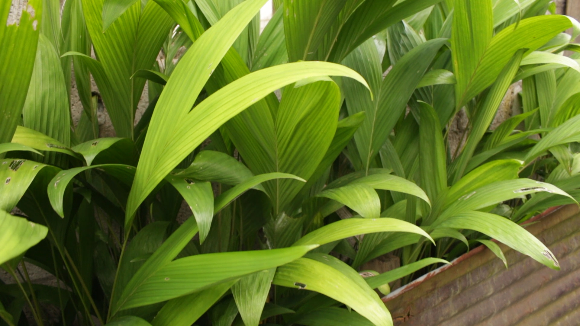 Planta medicinal que usan los Quijos.